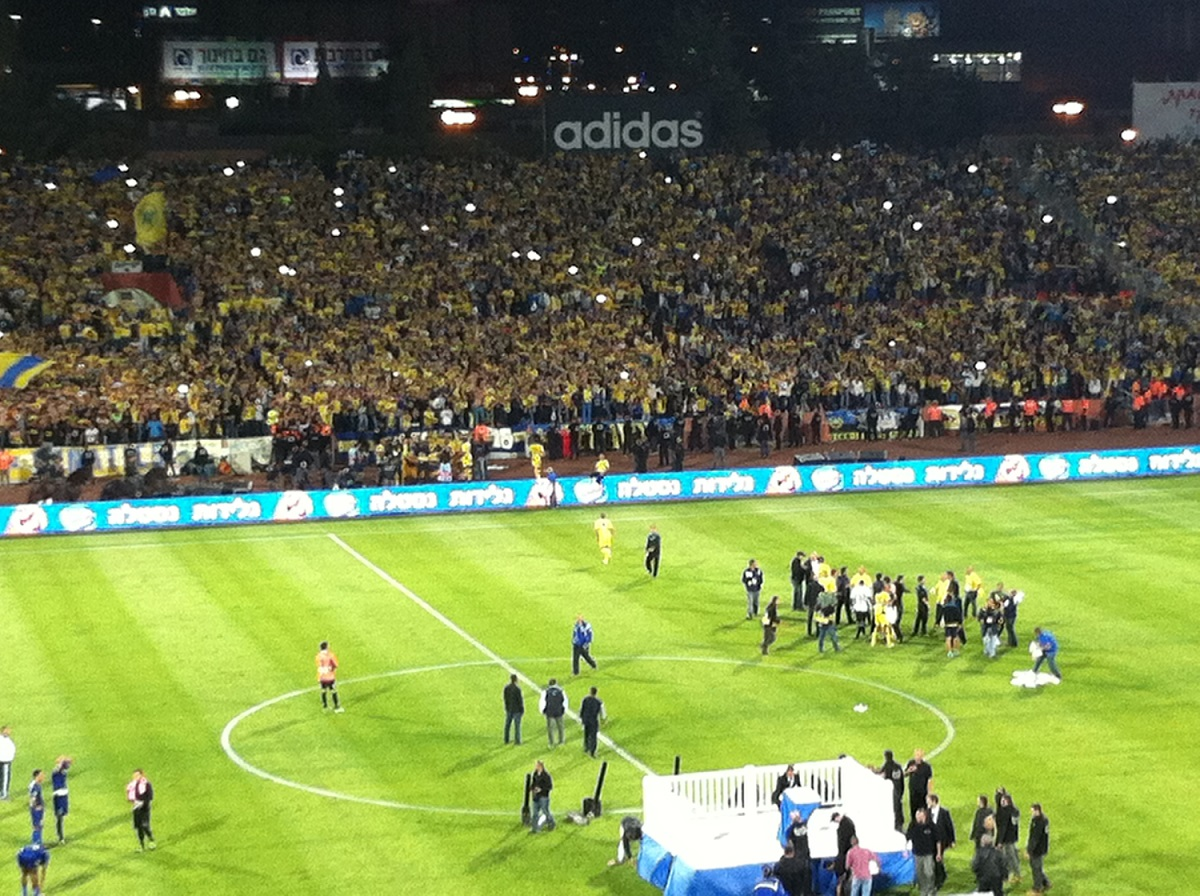 Maccabi Tel Aviv wins the 2012/2013 championship title